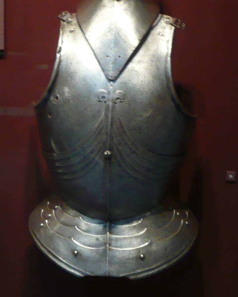 Gothic Breastplate, late 1400s, steel, from Italy. Located in the Armor Court of the Cleveland Museum of Art, Cleveland, Ohio, USA. At the top of the photo you can see the bottom part of a neck guard / bevor from c. 1480. The museum allows non-flash photography of any works or items that more than 75 years old and thus PD due to age.